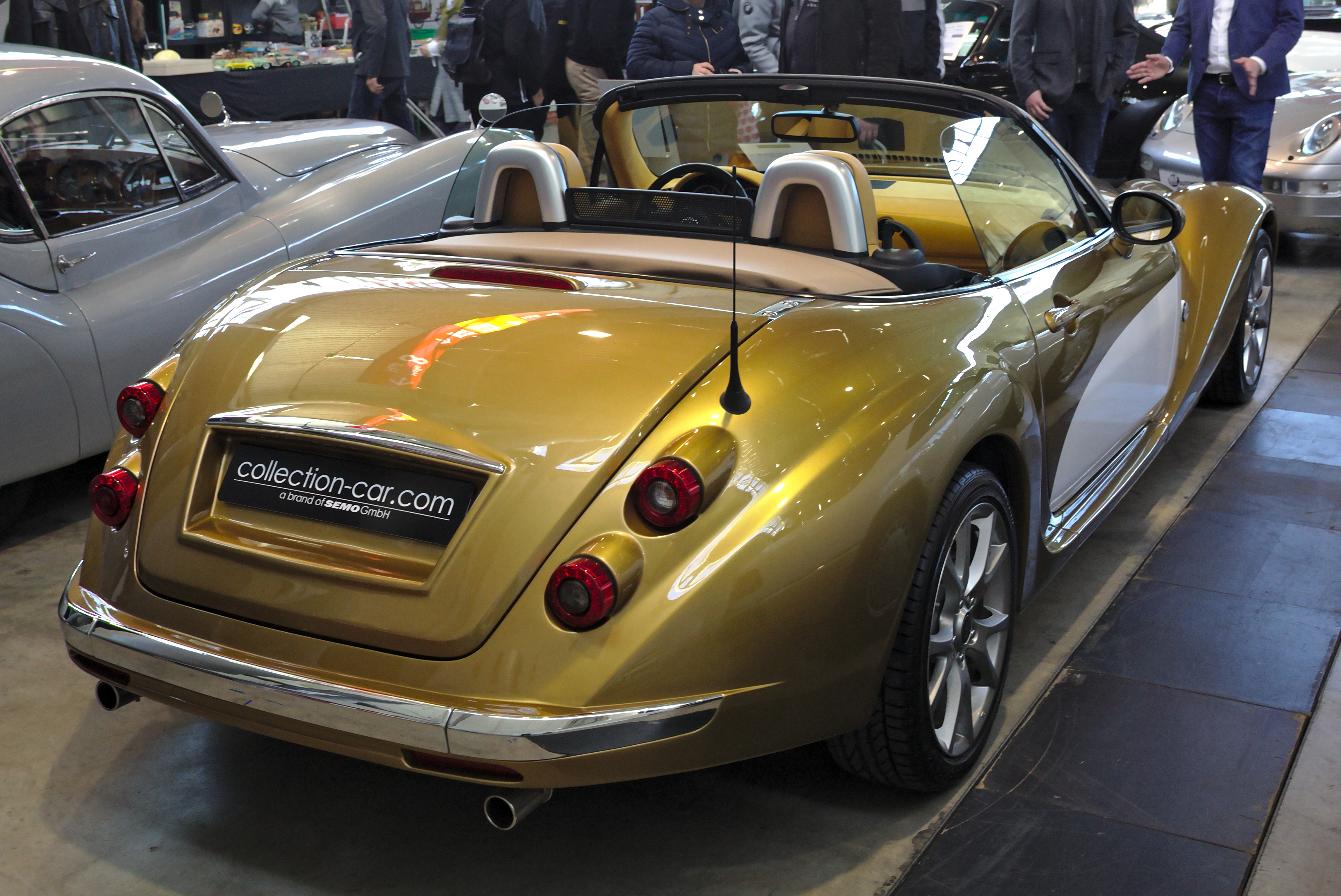 Mitsuoka Himiko Roadster at Retro Classics 2019